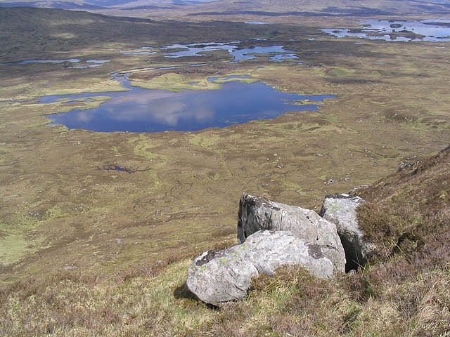 Loch Buidhe Loch Buidhe and Lochan na Stainge viewed from Meall Beag with part of Loch Ba on the top right.